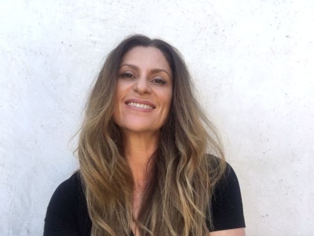 Niki Caro